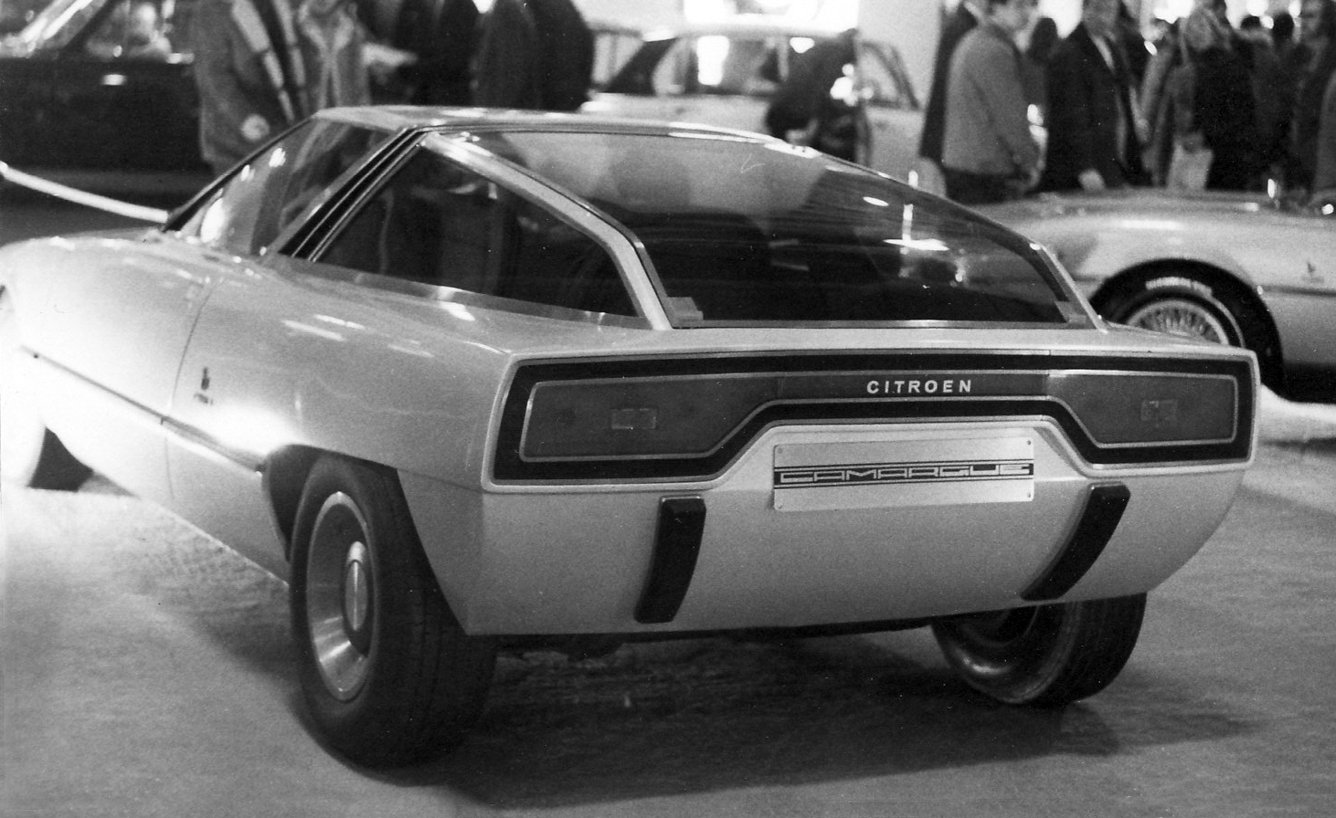 Bertone-designed Citroën GS Camargue at the Earls Court Motor Show, London, 1972.